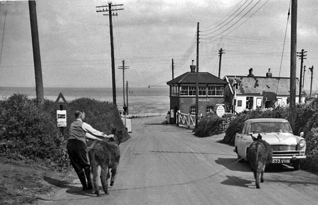 Down to the sea at Blue Anchor. View NNE past level-crossing at Blue Anchor station: donkeys being taken down to the beach for children's rides, passing my car (with my wife laughing inside). Ex-GWR station on Taunton - Norton Fitzwarren - Minehead line. See also ST0243 : Blue Anchor Station.